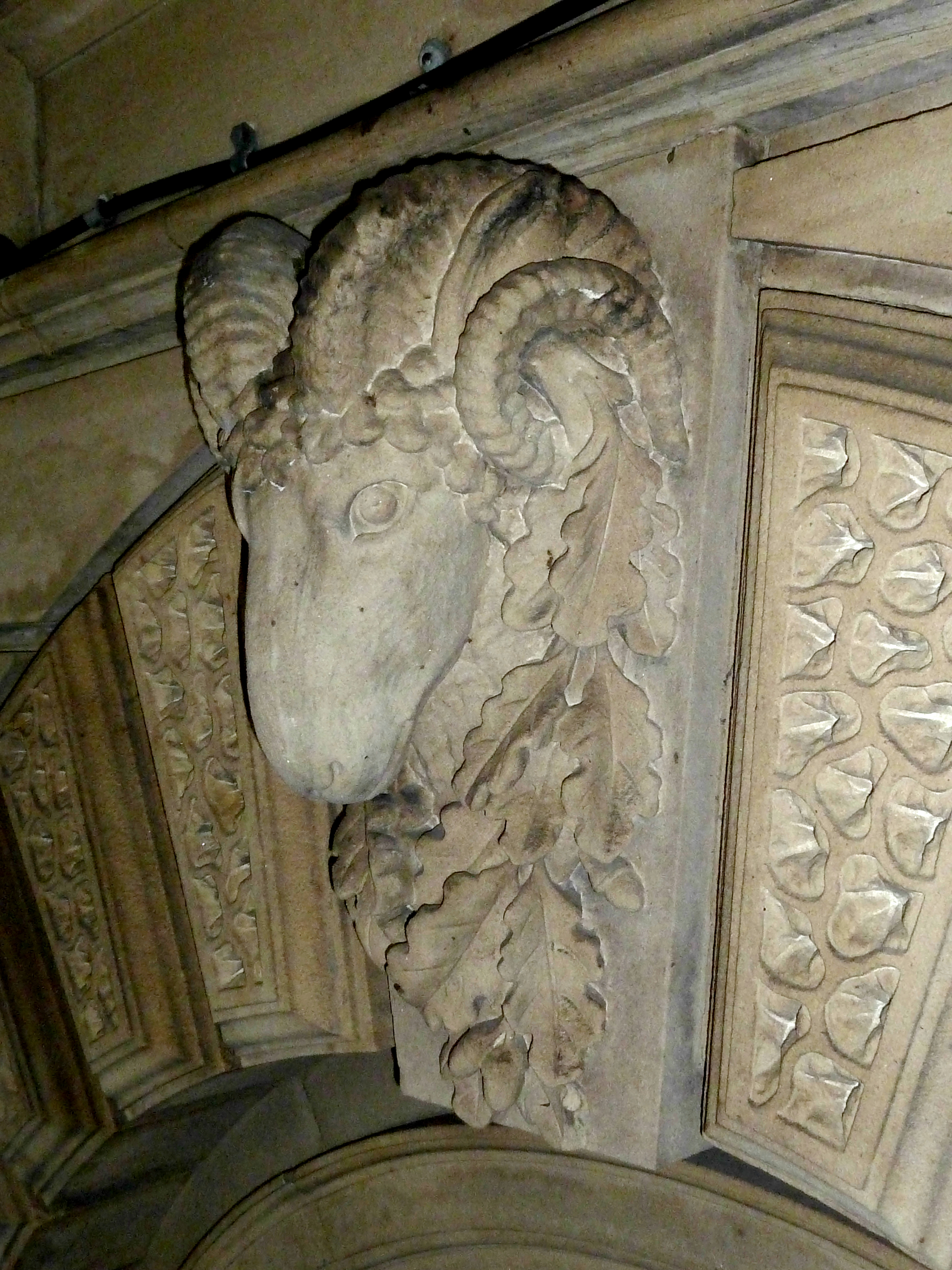 Stone Carvings on Moorlands House, Albion Street, Leeds, West Yorkshire, England. As of November 2016 the building was occupied by Starbucks. The photograph was taken from the scaffolding, which was erected for stone-cleaning. The carving is credited to Robert Mawer. Showing detailed carving of sheep's head. The leaves below are finely undercut, in sandstone.